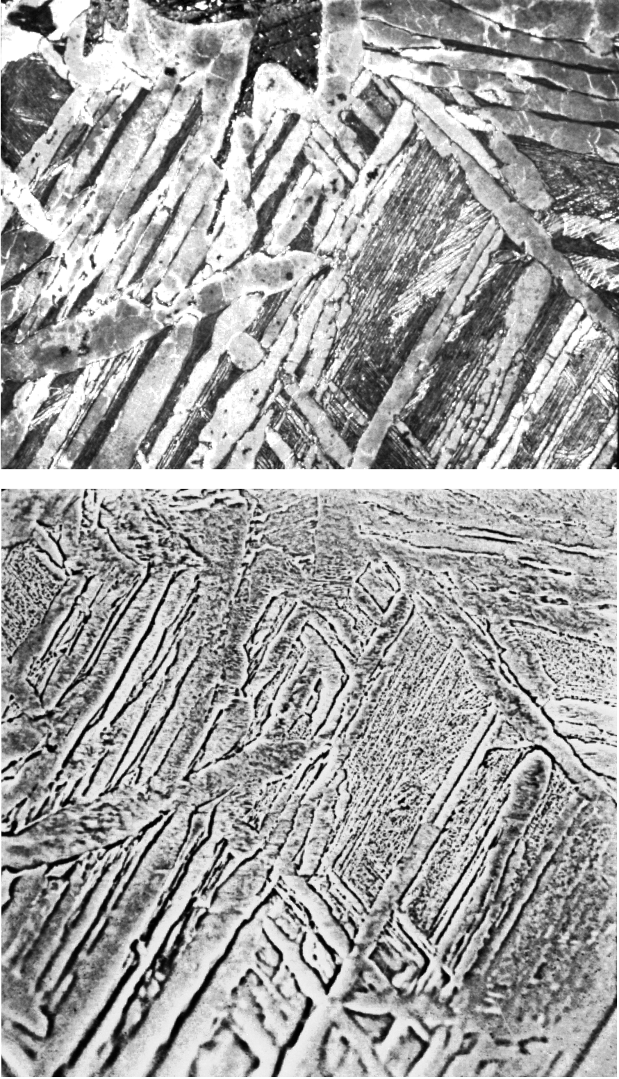 A fragment of nickel meteorite. Top: photo of cut surface, bottom - image from domain viewer (showing only irregularites in surface rather than magnetic domains.)